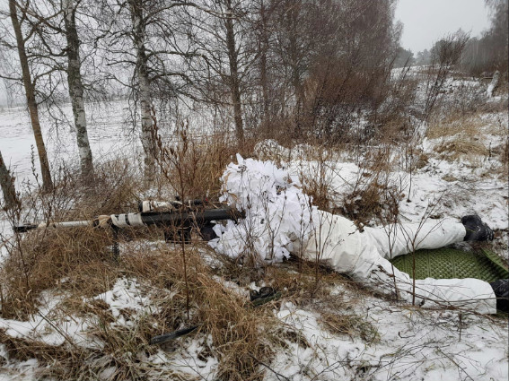 Italian Alpine sniper using winter Ghillie Suit (by ProApto) during the NATO operation ICE1901